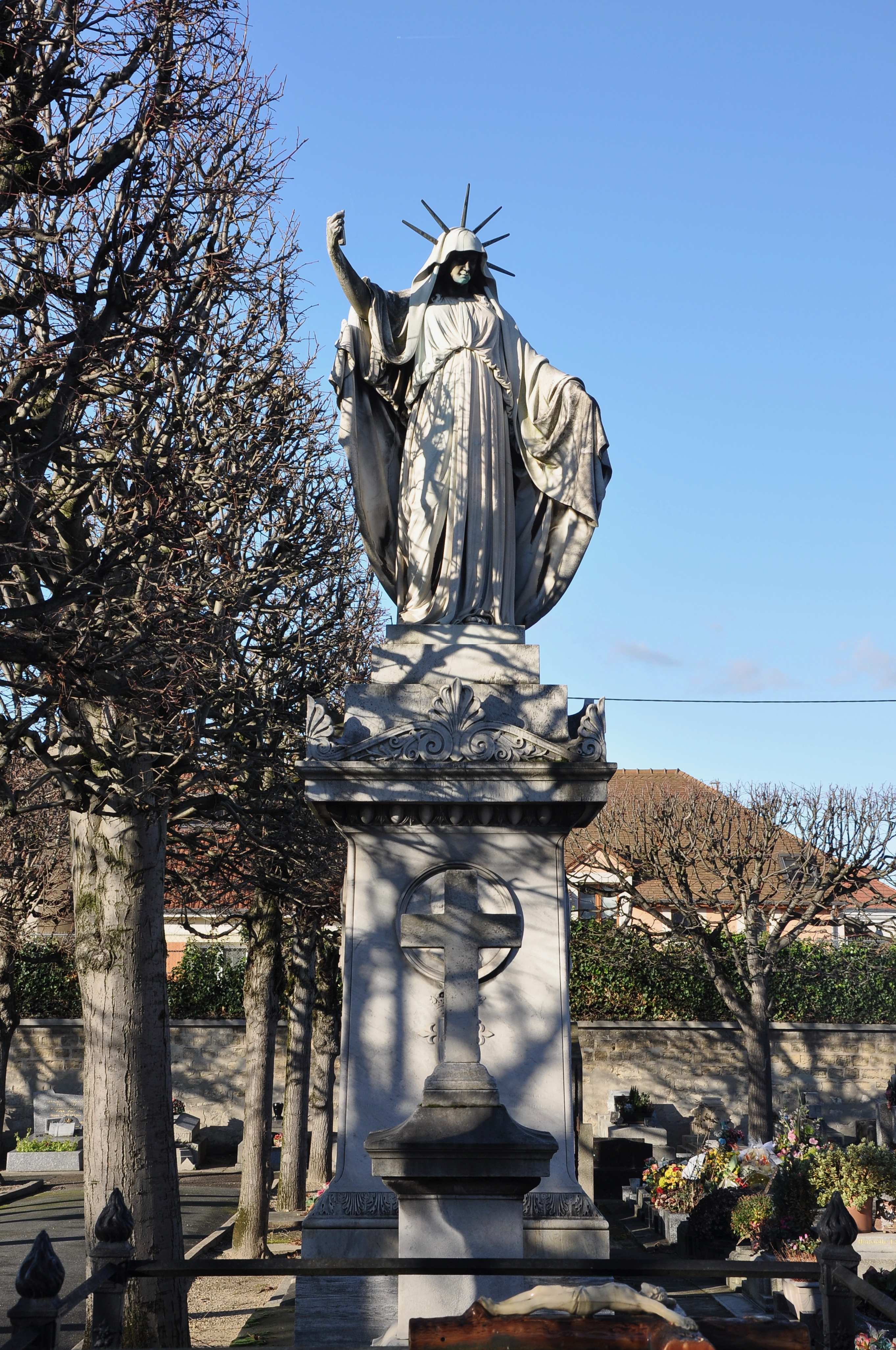 Sepulchral monument says Monument of Three Children of Queen Marie Christine of Bourbon to the Former Cemetery of Rueil-Malmaison, department of the Hauts-de-Seine in France. The monument built by the sculptor Moratilla in 1866 in homage to three sons of the queen died in Rueil in exile. The monument is listed in the inventory of the cultural heritage. .